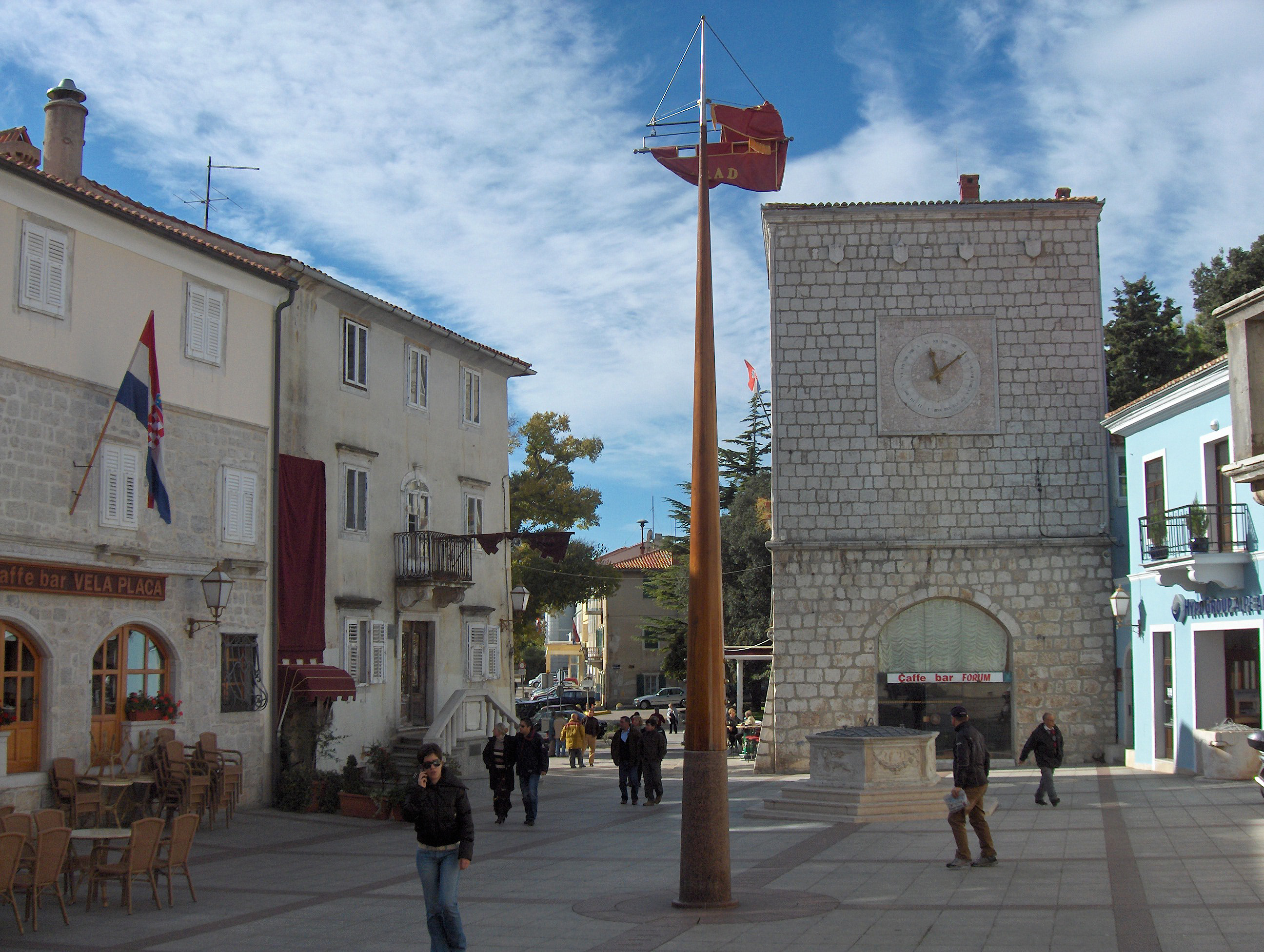 Central square; Krk, on the island of Krk, Croatia